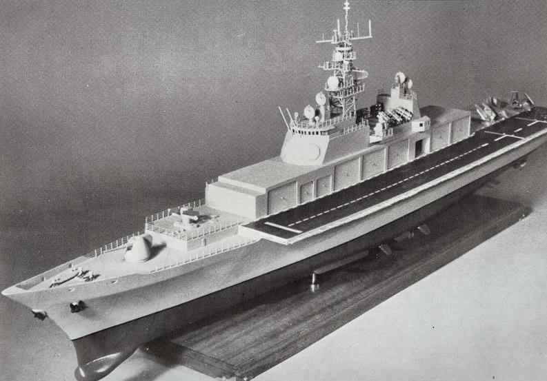 Mark II Strike Cruiser - U.S. Navy